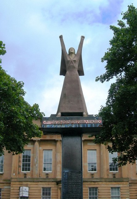 Spanish Civil War Monument This striking monument tells us: BETTER TO DIE ON YOUR FEET THAN LIVE FOREVER ON YOUR KNEES. The plaque below the figure explains: THE CITY OF GLASGOW AND THE BRITISH LABOUR MOVEMENT pay tribute to the courage of those men and women who went to Spain to fight Fascism 1936 -1939. 2,100 VOLUNTEERS WENT FROM BRITAIN, 534 WERE KILLED, 65 OF WHOM CAME FROM GLASGOW